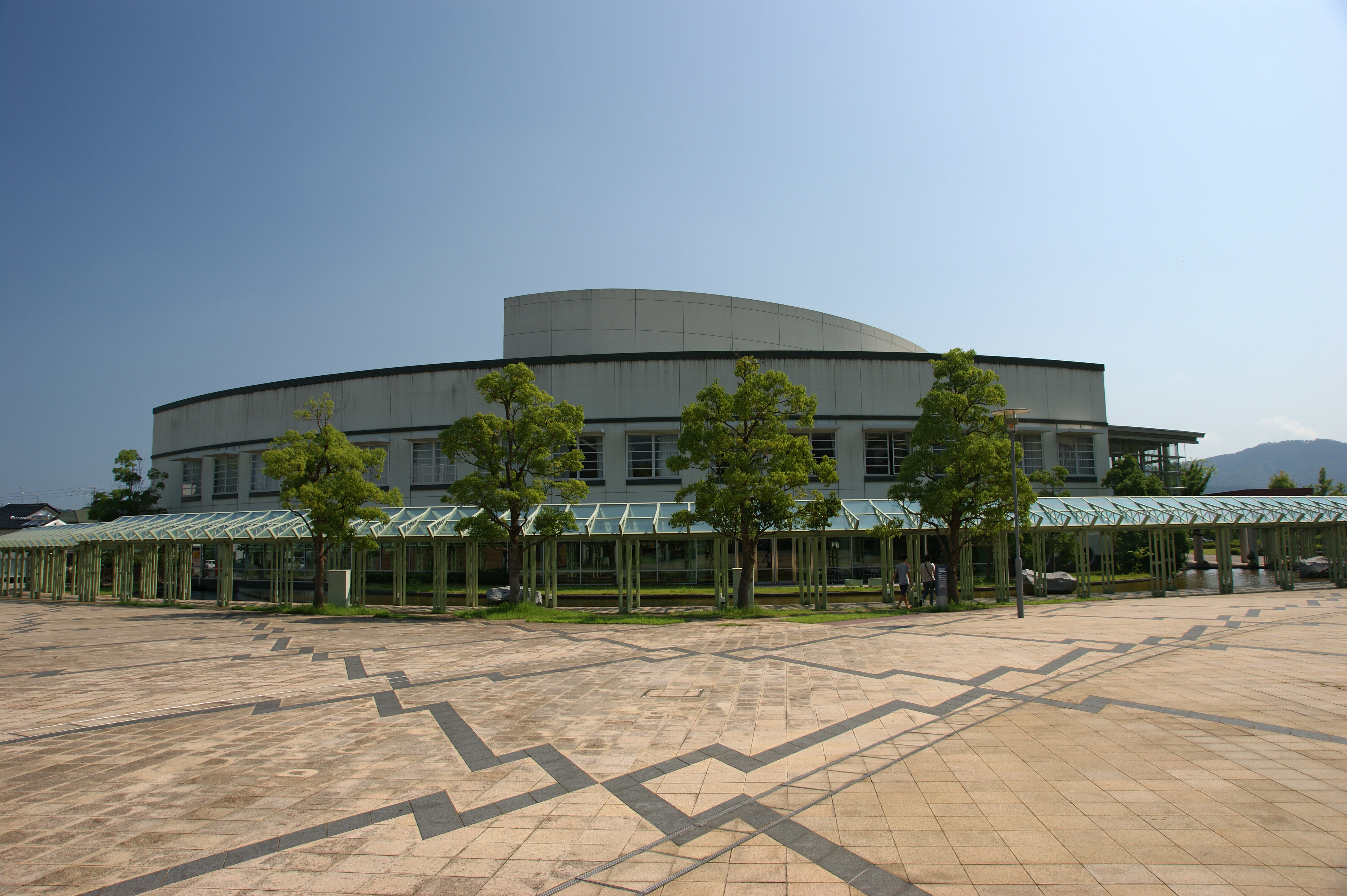 Kurayoshi Park Square in Kurayoshi, Tottori prefecture, Japan